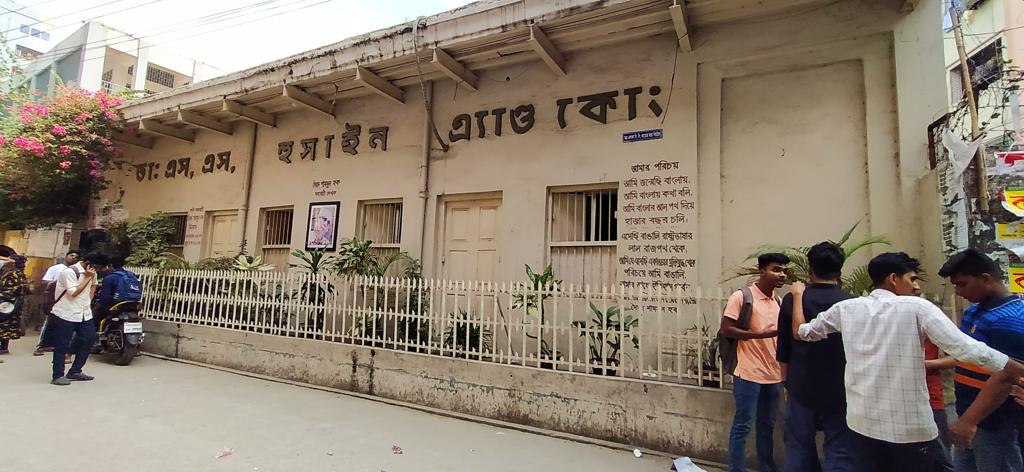 Home Bangladeshi poet Syed Shamsul Haque at Luxmibazar, Old Dhaka.